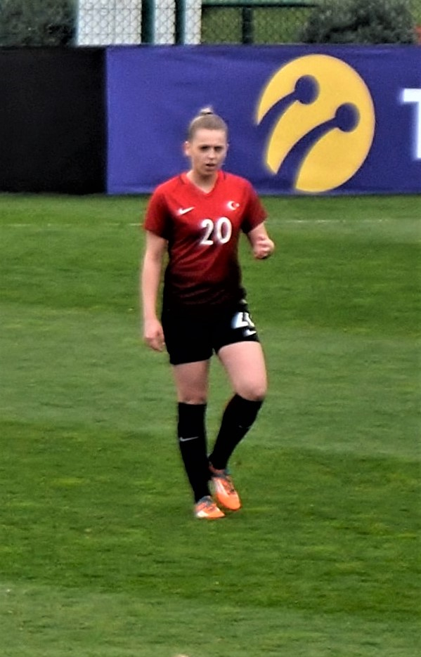 Selin Dişli playing for Turkey women's national football team in the friendly home match against Estonia at TFF Riva Facility on 7 April 2018.